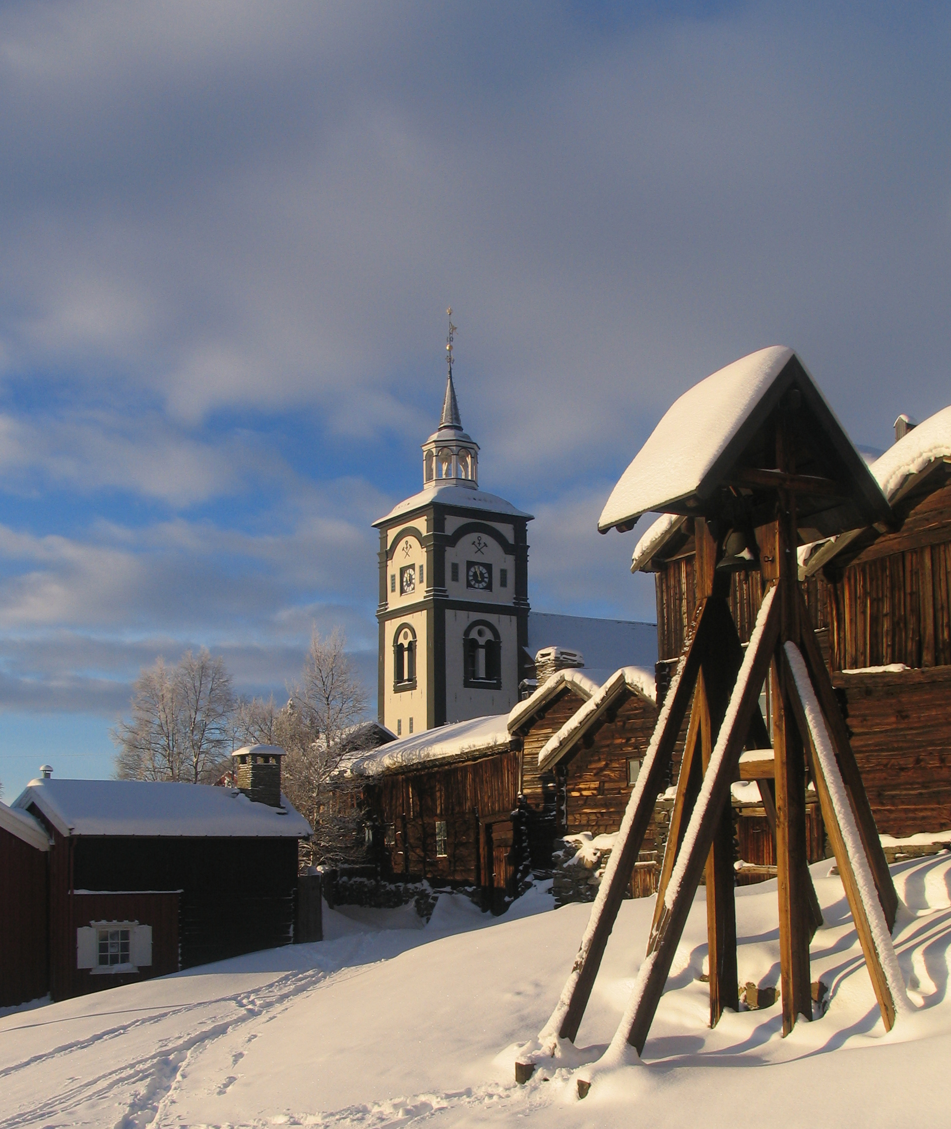 Church of the world heritage town Røros